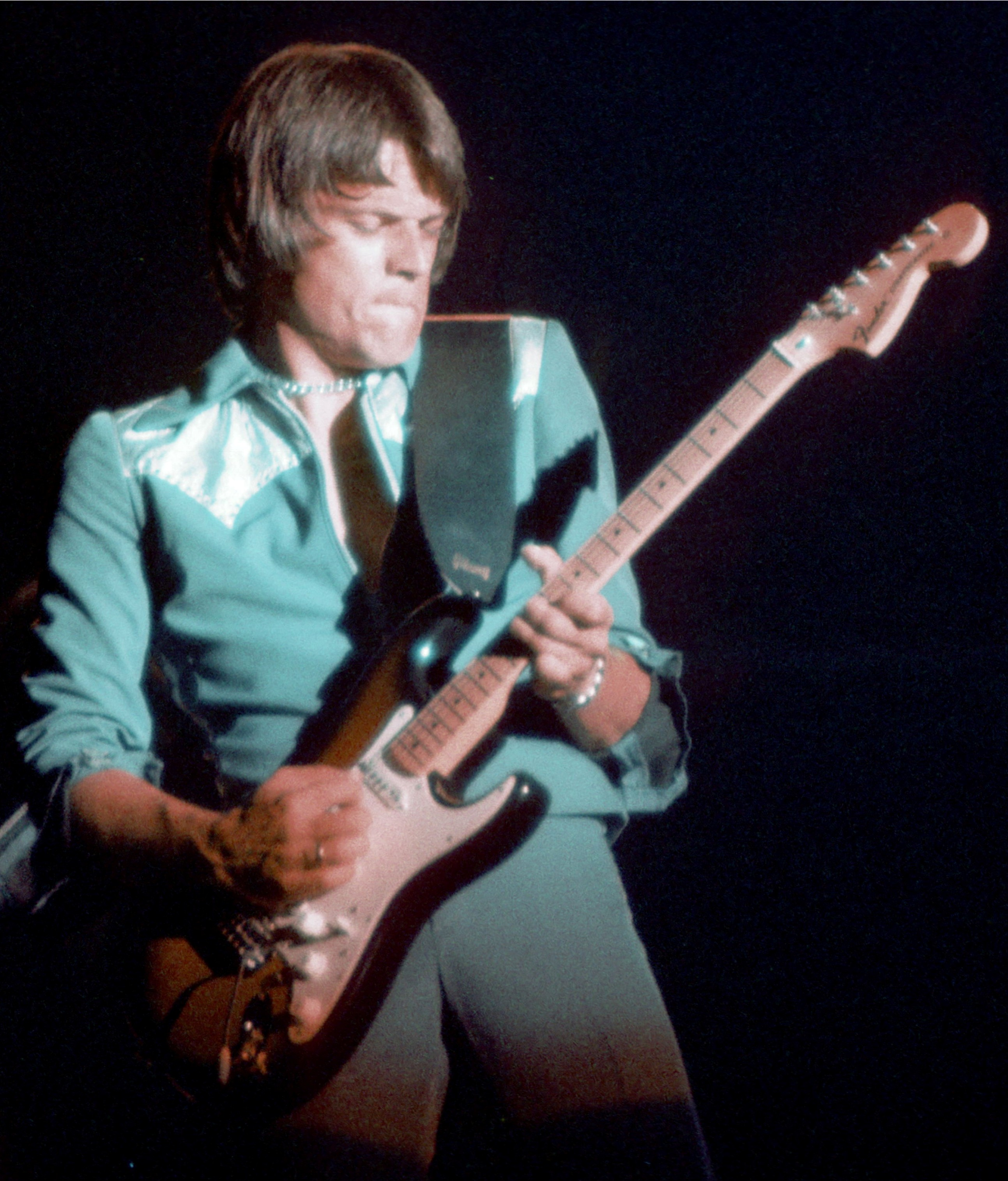 Jay Geils of The J. Geils Band performing in concert.